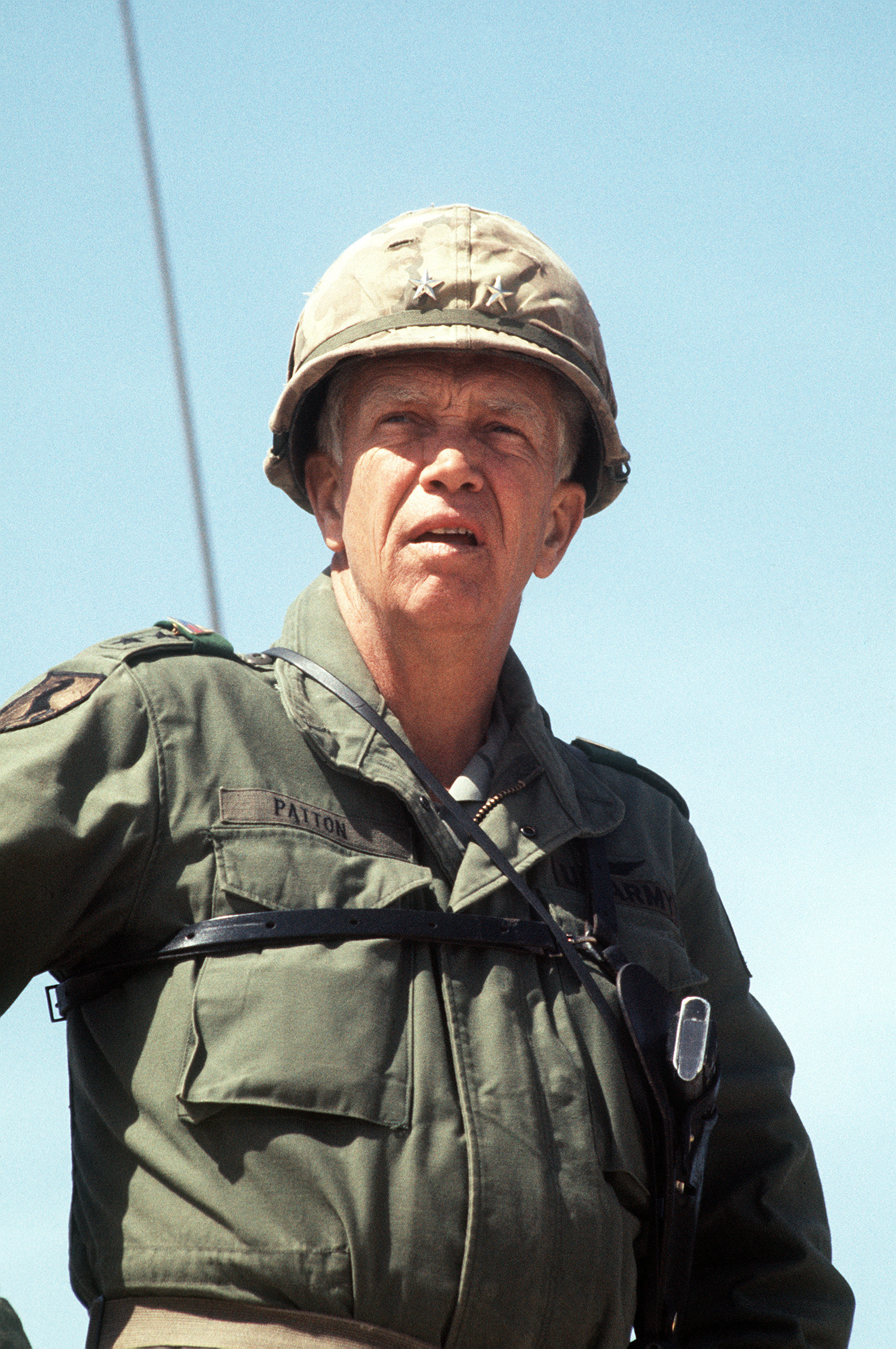 MGEN Georg S. Patton Jr., commander of the 2nd Armored Division, watches the Cowhouse River crossing during the joint services Operation Gallant Crew '77. ID: DF-ST-84-01686